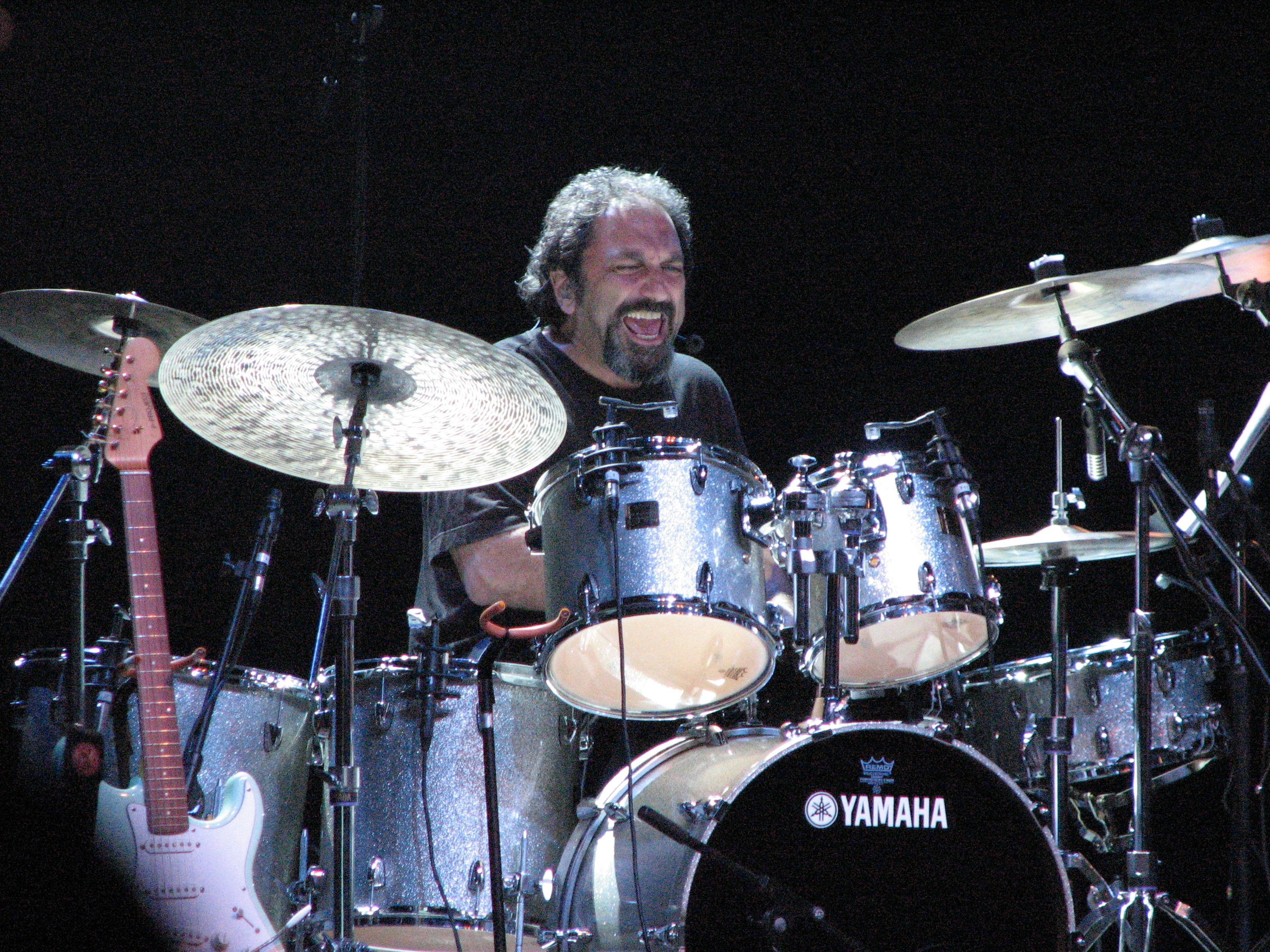 Jerry Marotta performing with Todd Rundgren in Toronto on September 4, 2006